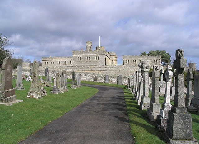 Castlewood Cemetery The Castle Gaol and museum is on the other side of the cemetery.